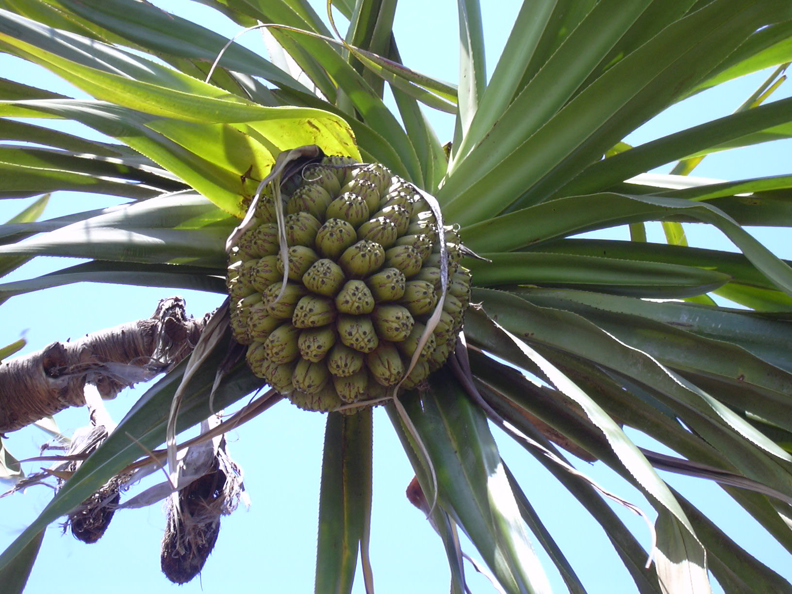 Pandanus tectorius (fruit). Location: Maui, State nursery Kahului